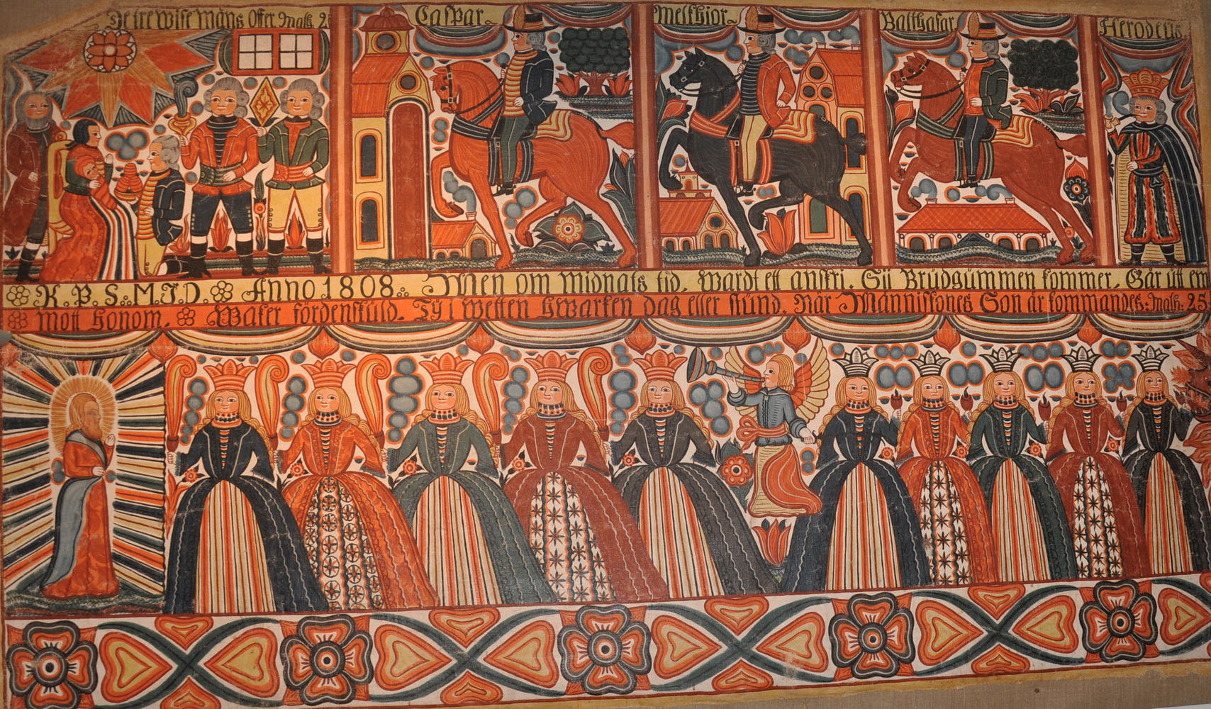 Wall tapestry from the museum in Unnaryd, Sweden, made by Johannes Nilsson